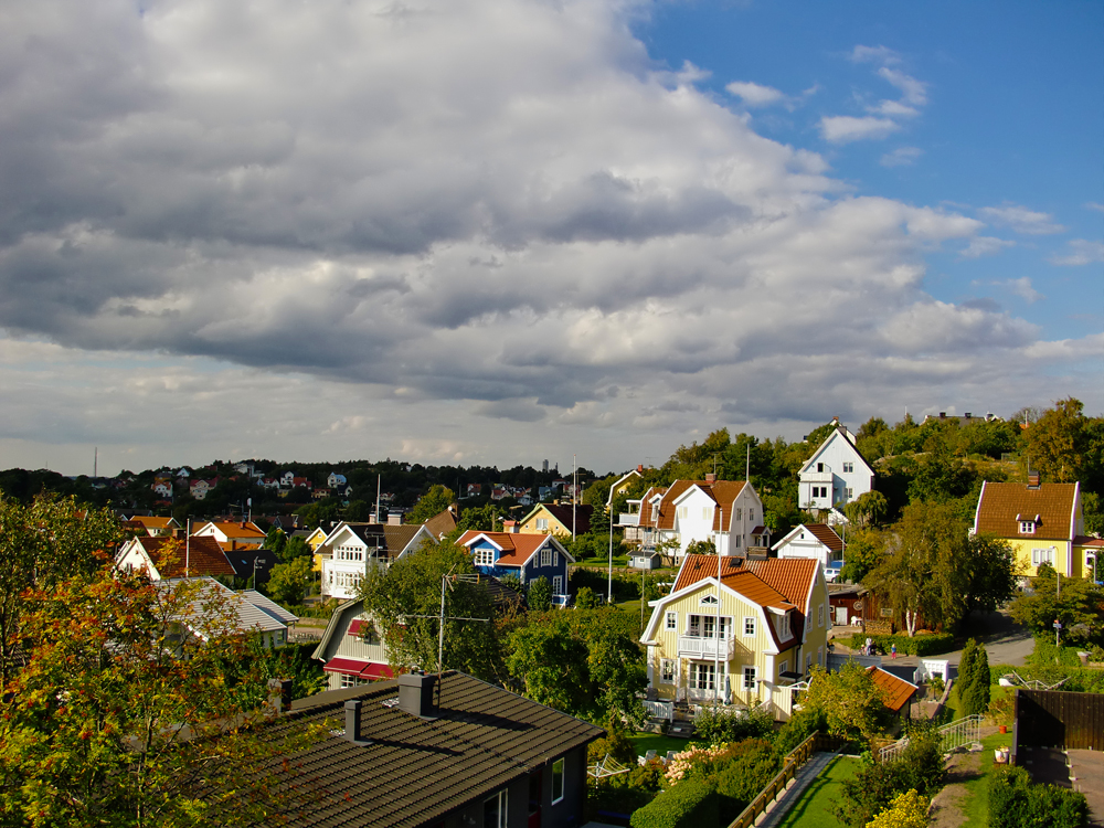 Ekebäck, Gothenburg.